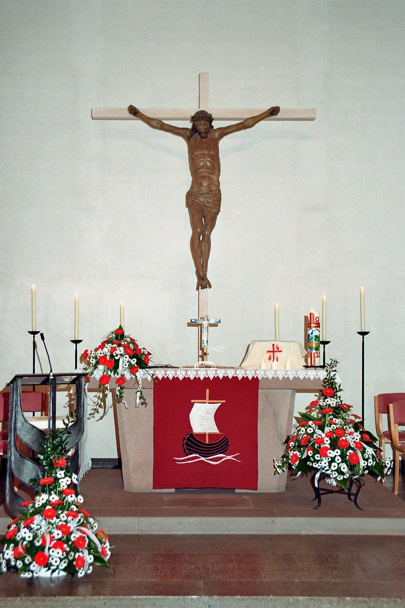 Altar and crucifix in the Protestant church of Schweinheim in Aschaffenburg, Bavaria, Germany